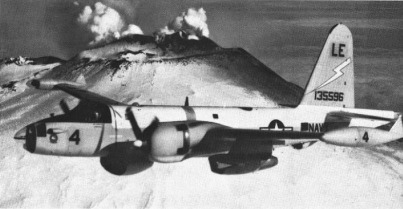 A U.S. Navy Lockheed SP-2H Neptune (BuNo 135596, named "Pegasus") of Patrol Squadron 11 (VP-11) in flight over Mount Etna, Italy, circa 1965.